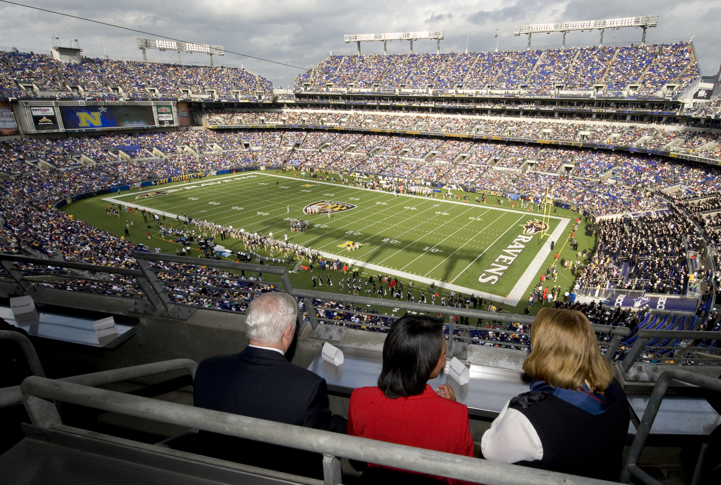 Defense Secretary Robert M. Gates, left, Secretary of State Condoleezza Rice, center, and Becky Gates, right, watch the Navy vs. Notre Dame football game in Baltimore, Nov. 15, 2008. The Fighting Irish defeated the midshipmen, 27-21.